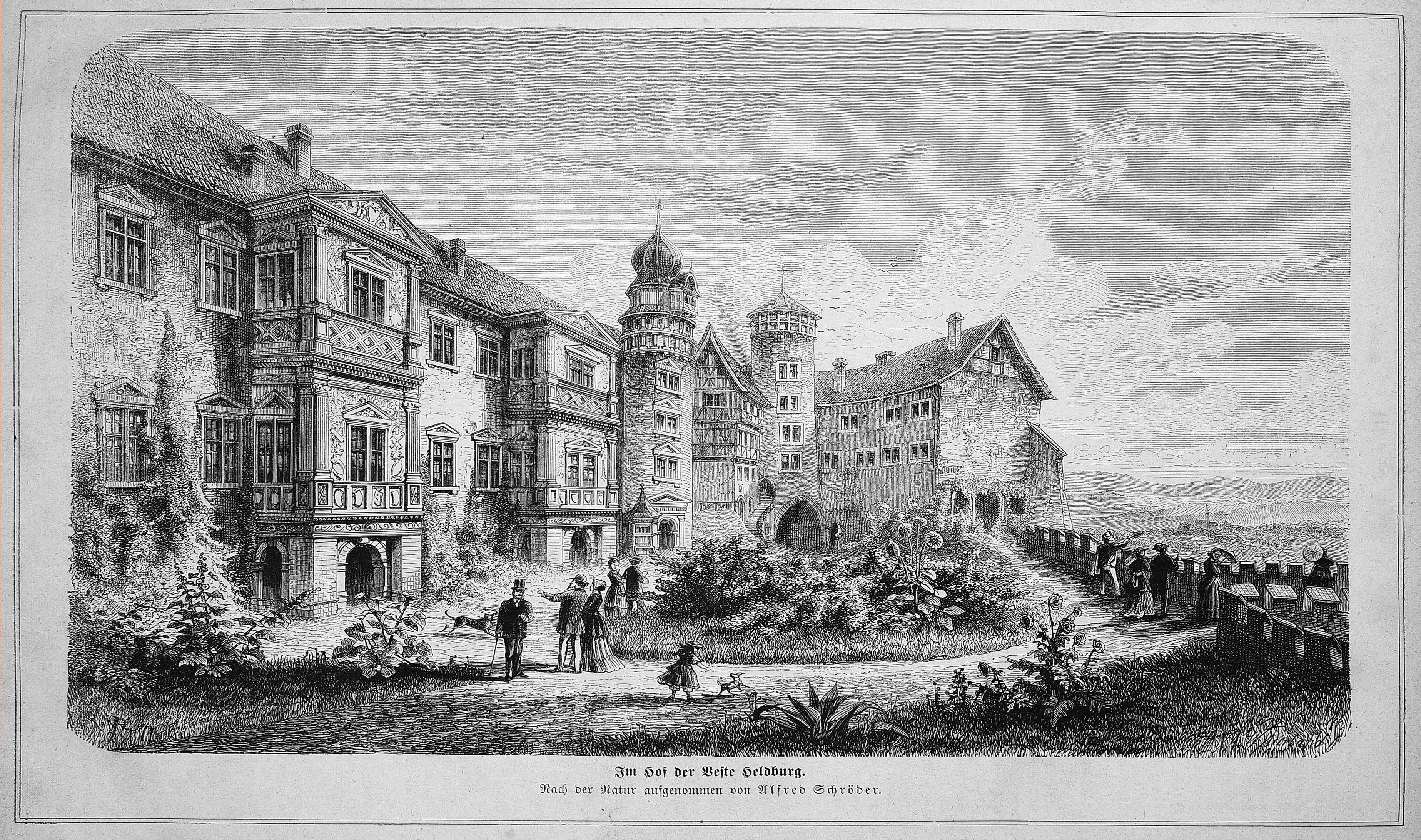 Page 113 from book Die Gartenlaube ("The Garden Arbor"). Extracted image (if any): File:Die Gartenlaube (1872) b 113.jpg - hi res, ~2.5 MB.